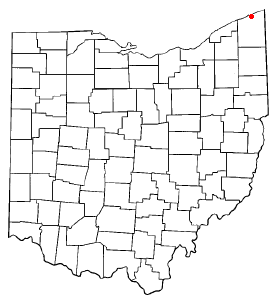 Locator map of Ashtabula in northeastern Ohio.